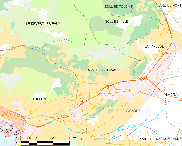 Map of French municipality La Valette-du-Var